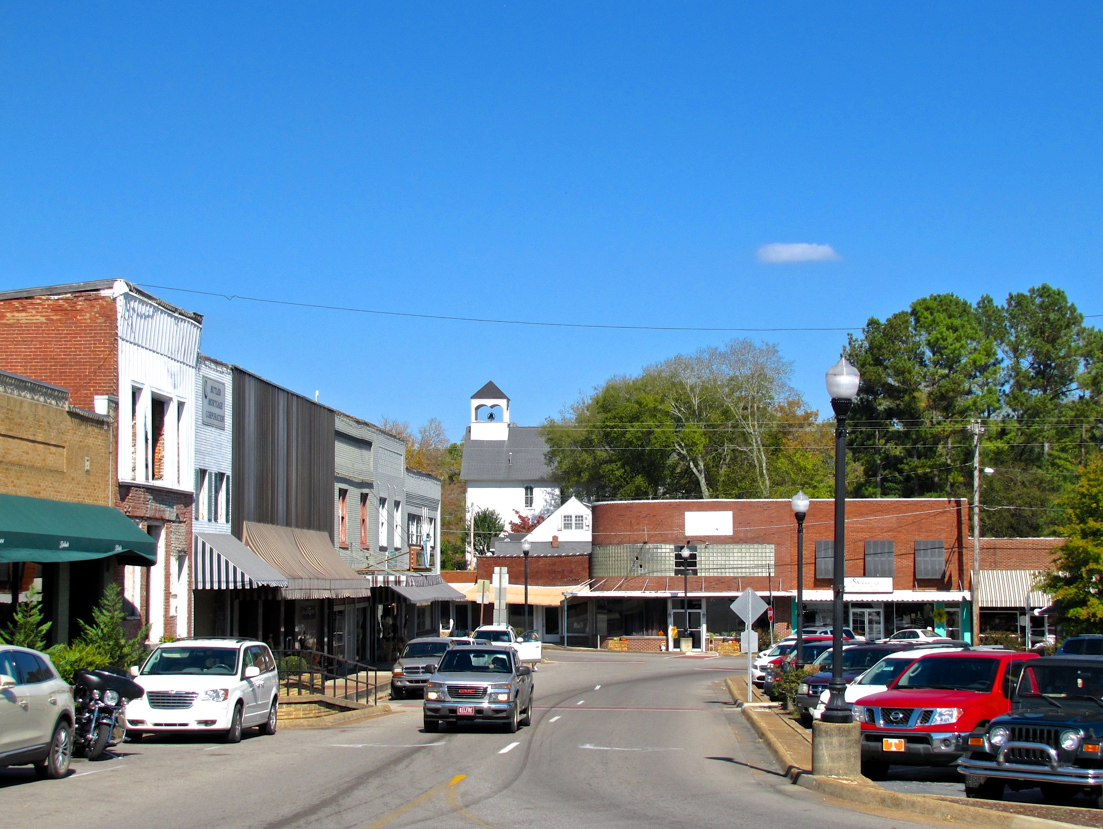 The western end of the courthouse square in Waynesboro, Tennessee, United States.